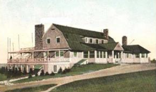 A snip from a 1909 postcard showing the clubhouse of the Plainfield Country Club in Edison, New Jersey.